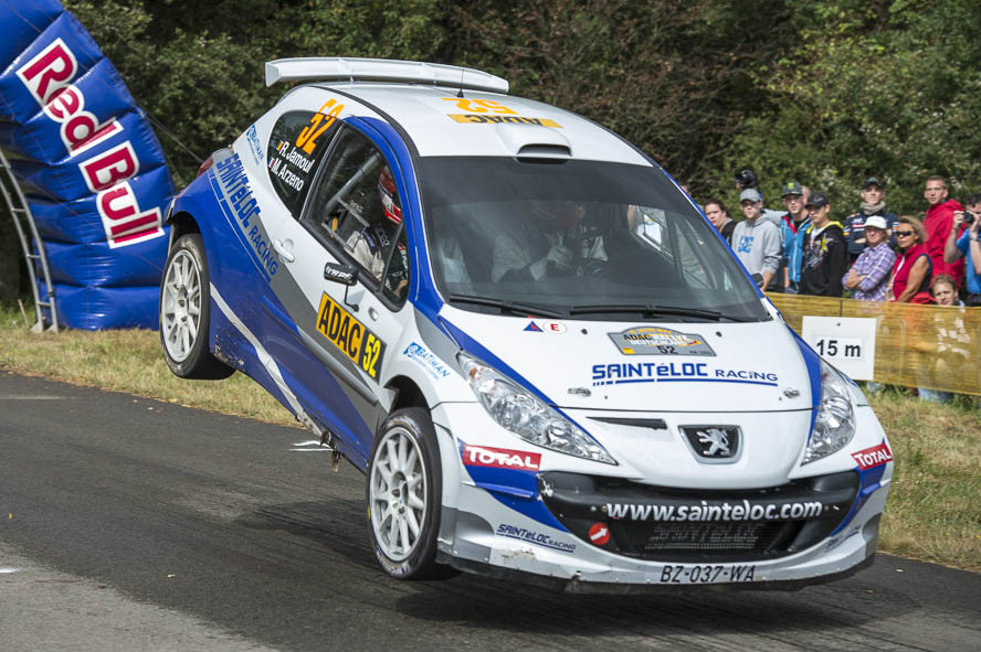 Rally Germany 2012 ADAC Rallye Deutschland,Arena Panzerplatte 1,Gina,Mathieu Arzeno,Motorsport,Peugeot 207 S2000,Rally,Rallye,Rallye Deutschland,Renaud Jamoul,SS9,WP9,WRC